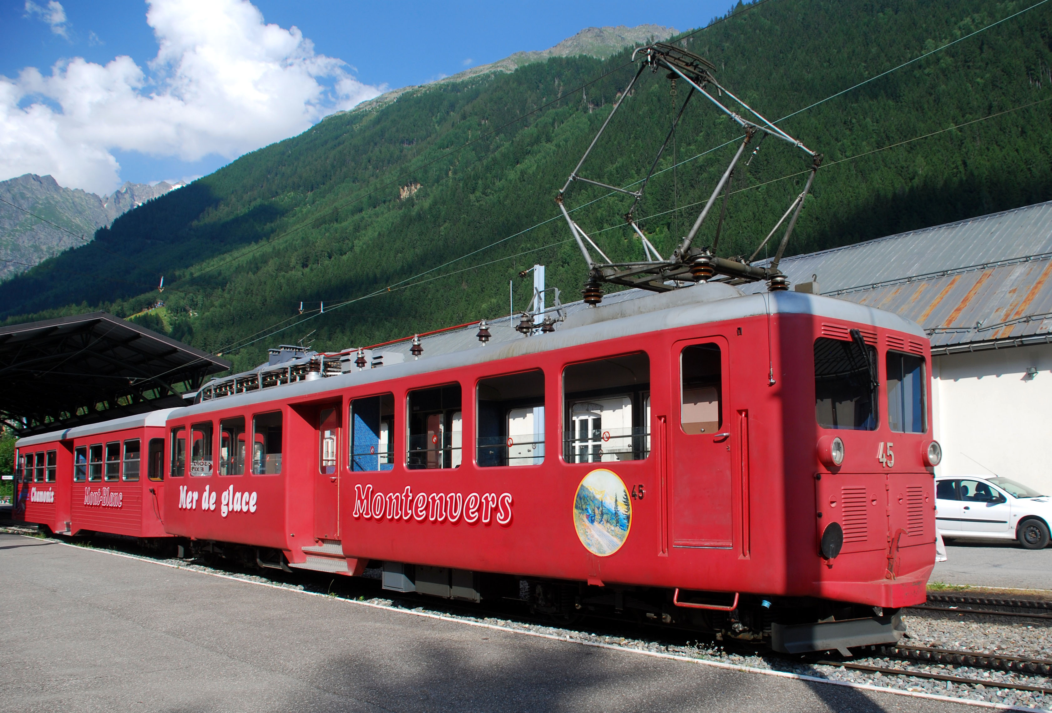 Montenvers railway: EBU #45, side view.